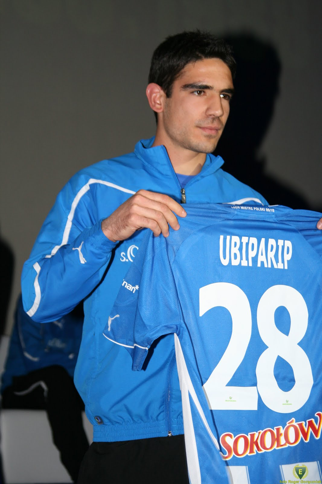 Serbian player Vojo Ubiparip